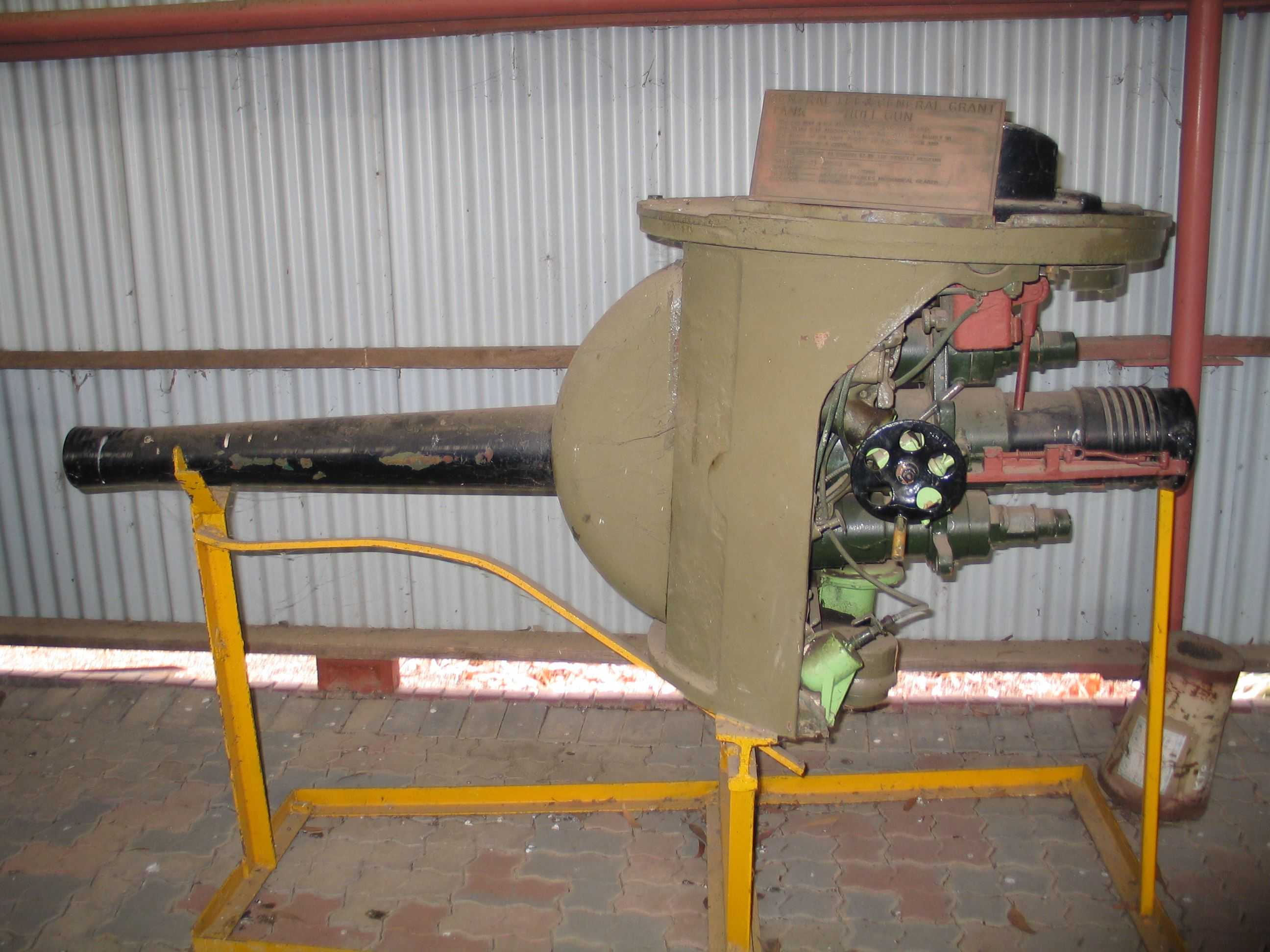 75 mm gun as mounted in Medium Tank M3 Lee/Grant in Royal Australian Armoured Corps Tank Museum, Puckapunyal, Victoria, Australia.